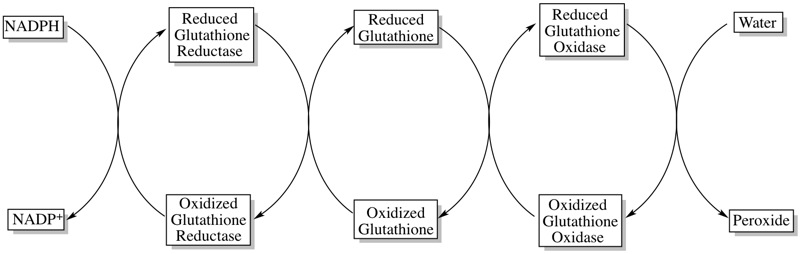 Reduced glutathione reductase, glutathione peroxidase and glutathione interact to reduce hydrogen peroxide to water, in order to protect the cell from oxidative damage. Erratum: the final arrow on the far right should be flipped as to indicate conversion of Peroxide to Water